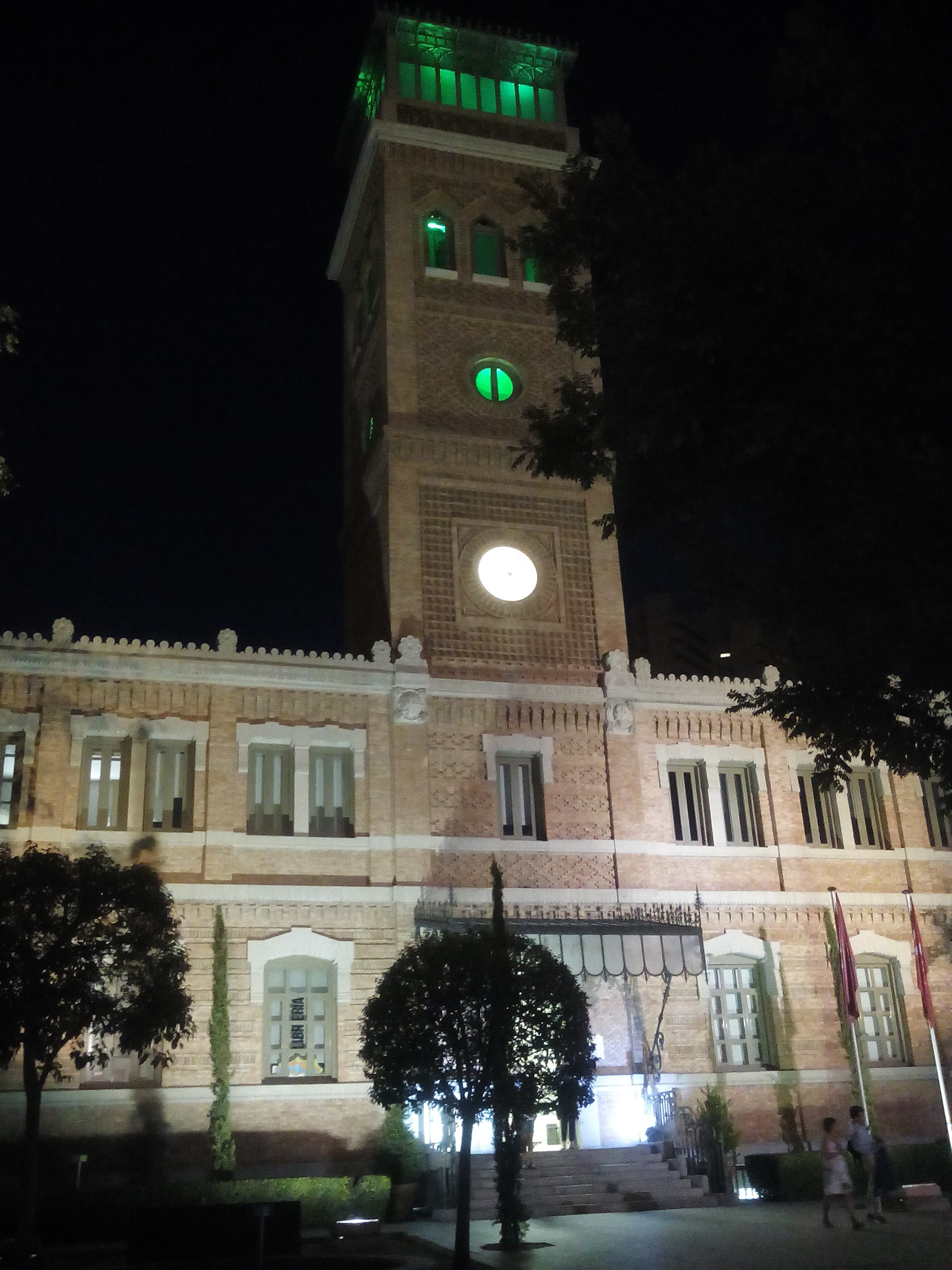 Minaret of the arabic cultural house in Madrid Spain near the parc of Retiro - green versioin